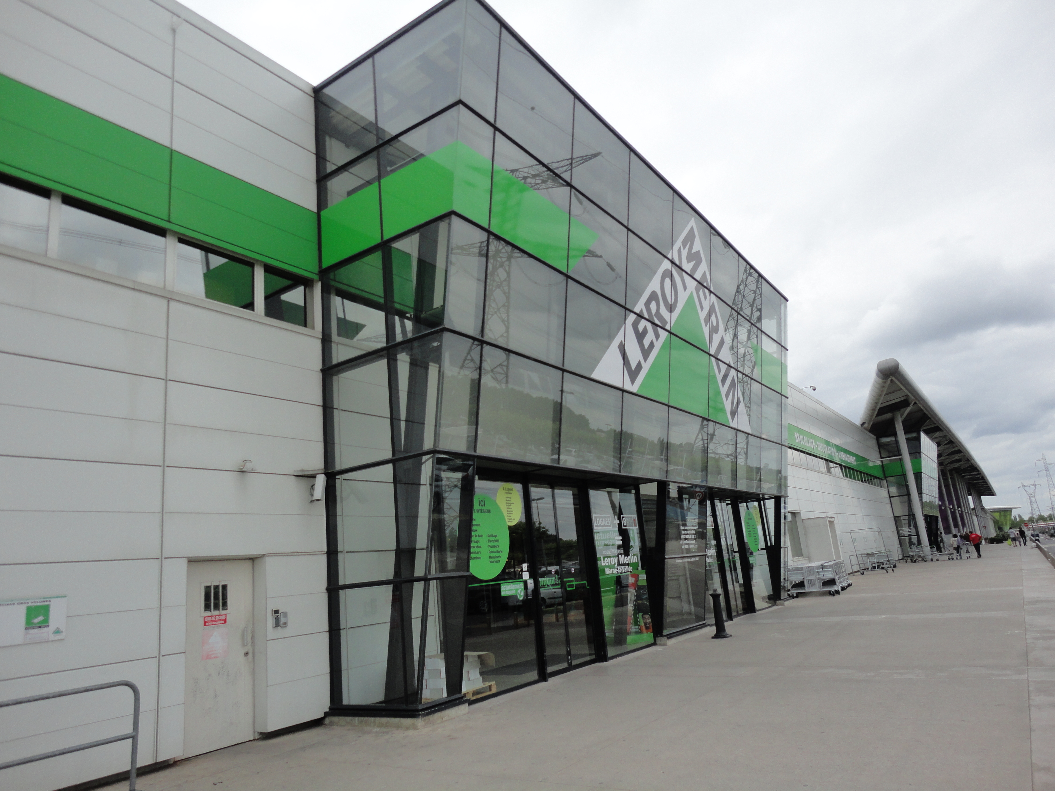 Leroy Merlin store of Bay 2 in Torcy (Seine-et-Marne, France).